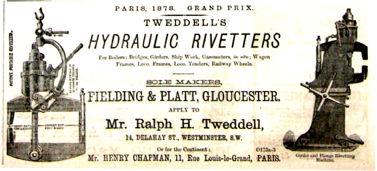 Fielding & Platt of Gloucester advert January 1880.